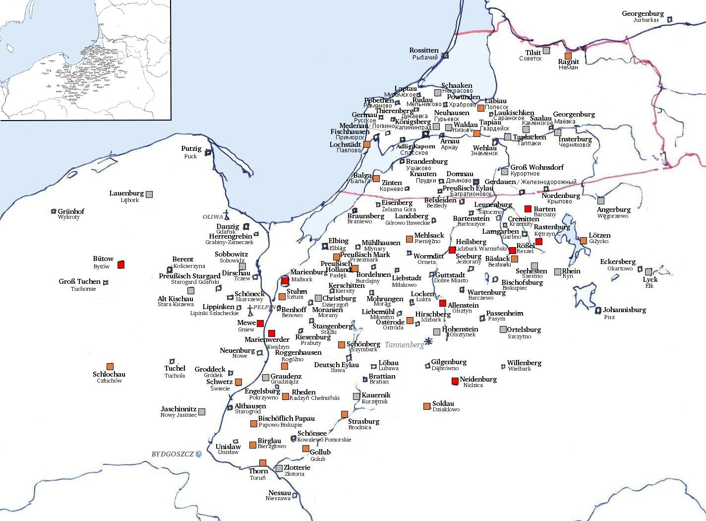 Map of Castles of the Teutonic Knights in Prussia